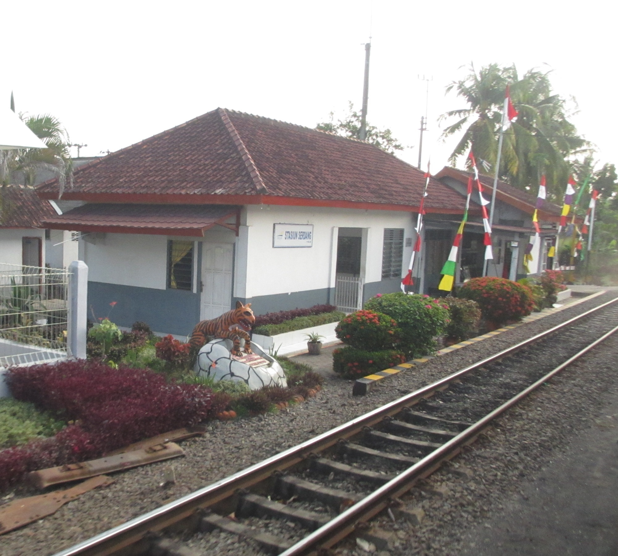 Serdang Railway Station